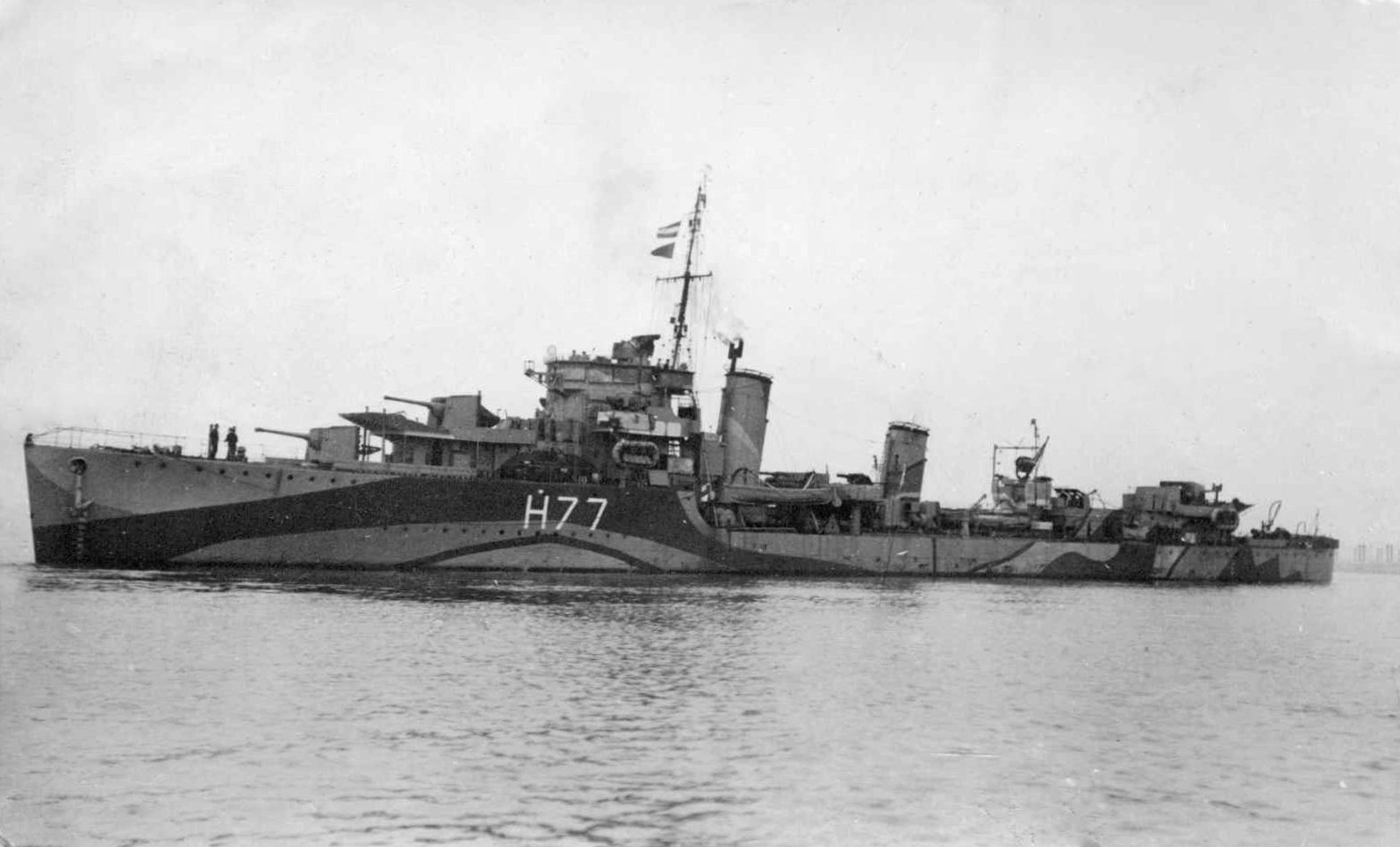 Photograph of HMS Boreas.